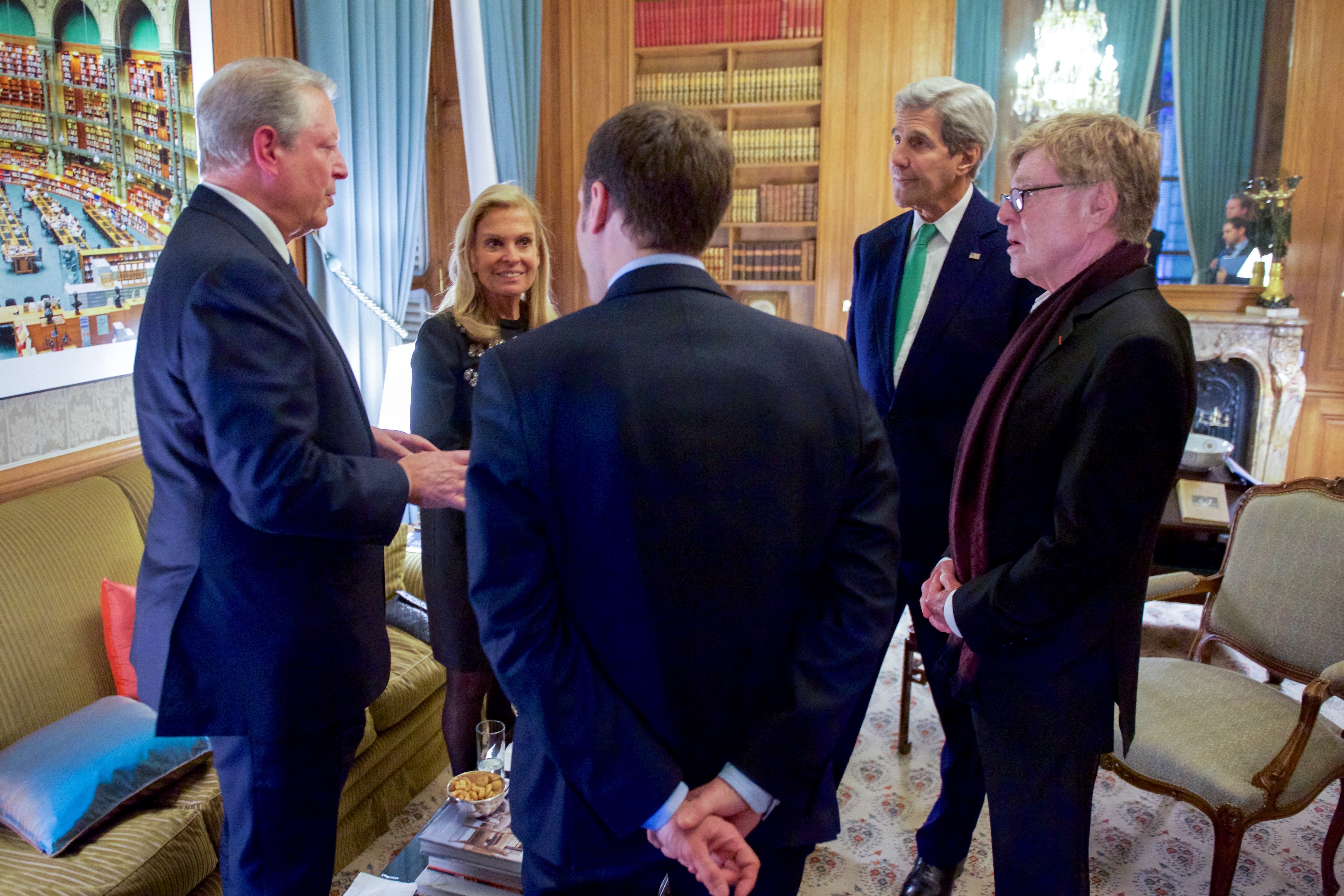 U.S. Secretary of State John Kerry chats with former Vice President Al Gore, U.S. Ambassador to France Jane Hartley, French Minister of the Economy Emmanuel Macron, and actor/director Robert Redford on December 7, 2015, at the U.S. Ambassador's Residence in Paris, France, amid the COP21 climate change summit. [State Department Photo/ Public Domain]